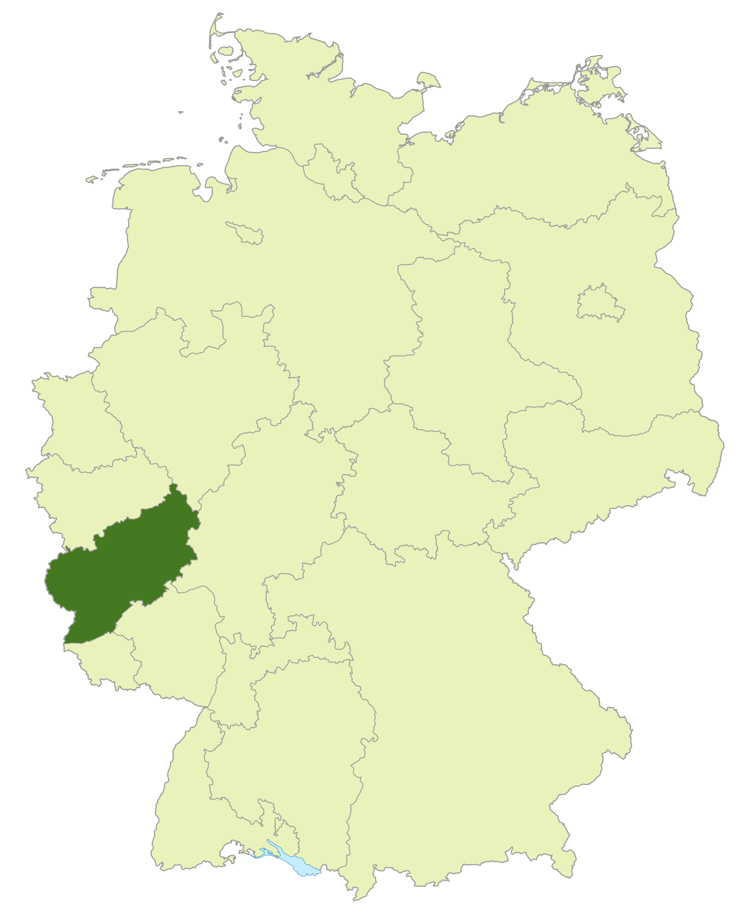 Map of regional soccer association Rheinland, Germany